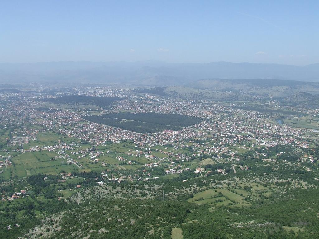 Zagoric